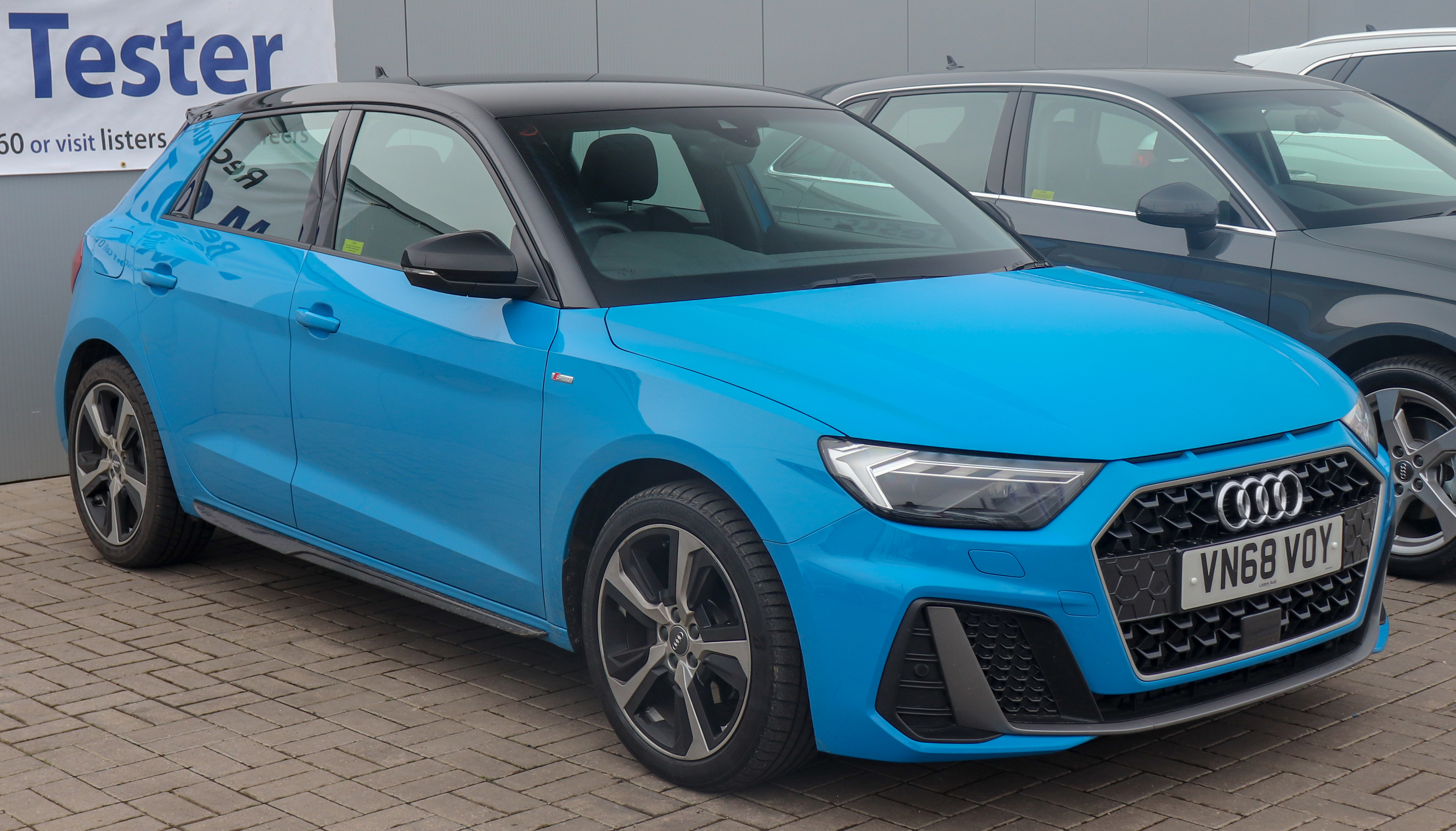 2018 Audi A1 S Line 30 TFSi S-A 1.0 Taken in Stratford-upon-Avon